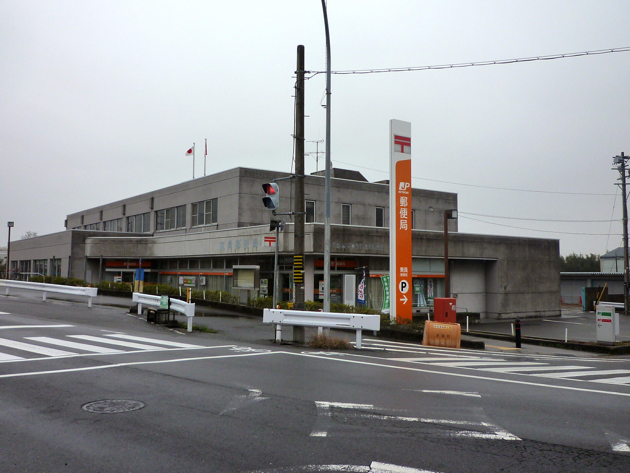 The "Tōin Post Office" in Ōki, Tōin Town, Inabe District, Mie Prefecture, Japan.